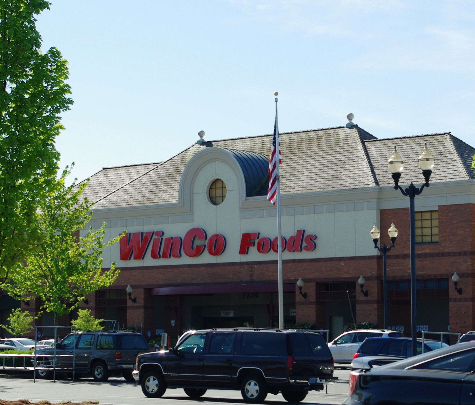 WinCo Foods supermarket at Crossroads at Orenco Station in Hillsboro, Oregon.